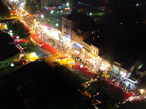 BBQ Festival.